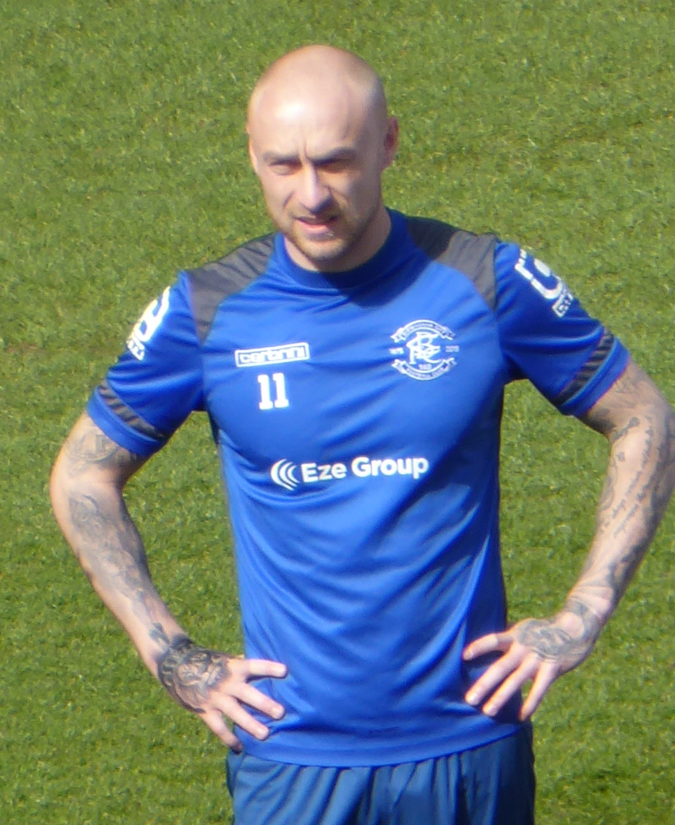 David Cotterill of Birmingham City Football Club warming up before a match in April 2016